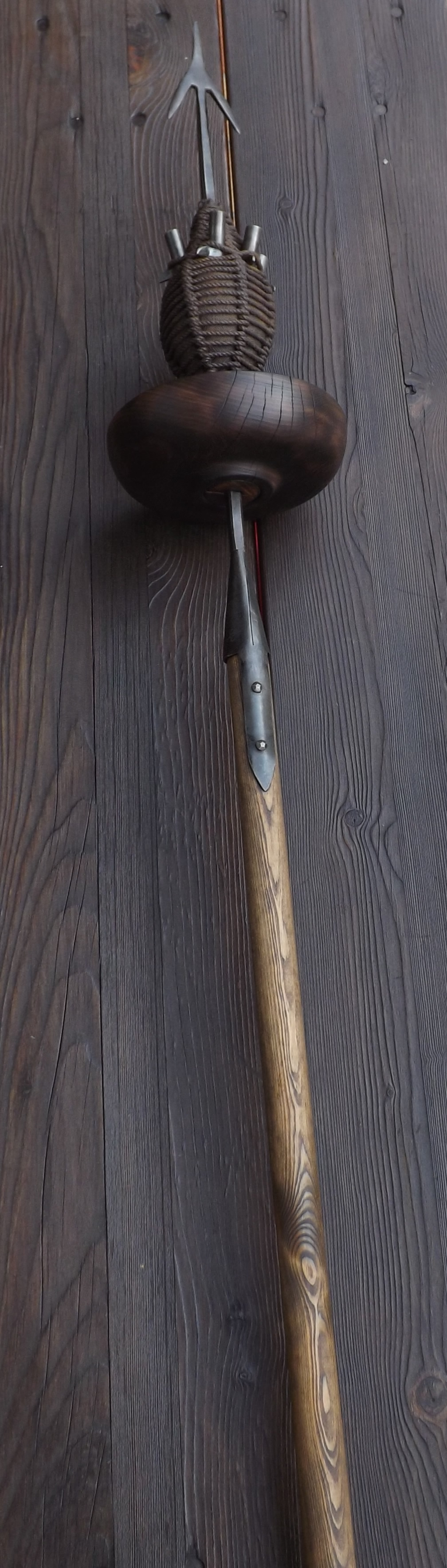 Reconstruction of a fire pike of the 16th/17th Century at the Rüstkammer Emden, Germany